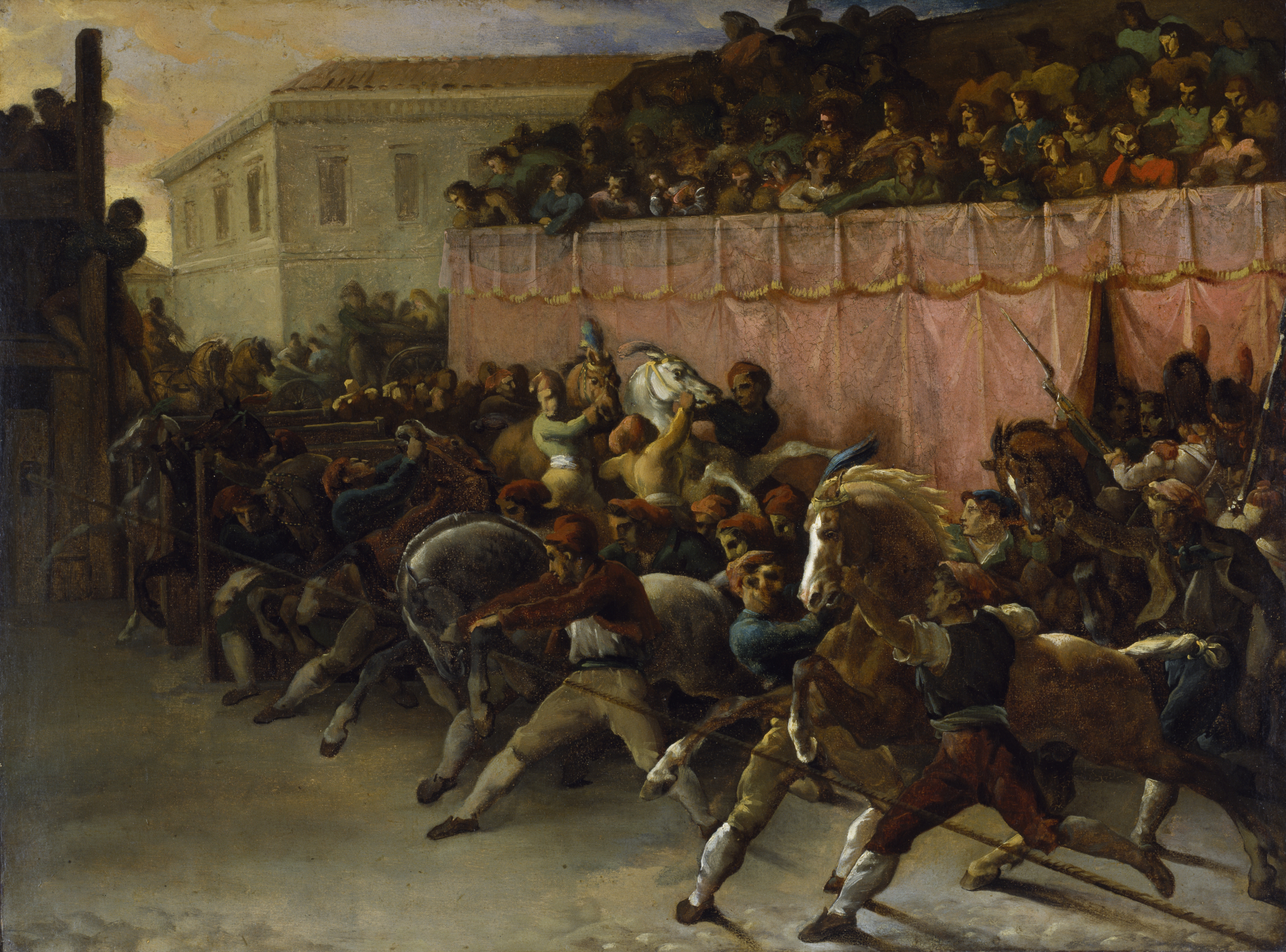 From the mid-15th century until 1882, spring carnival in Rome closed with a horse race. Fifteen to 20 riderless horses, originally imported from the Barbary Coast of North Africa, ran the length of the Via del Corso, a long, straight city street, in about 2½ minutes. Throughout his career, Géricault lovingly depicted the horse as a metaphor for unfettered emotion and power. The artist initially planned to paint a canvas of this subject more than 30 feet in width; he completed 20 small oil studies before abandoning the project. In other variations on this theme, Géricault set the race in ancient, rather than contemporary, Rome.